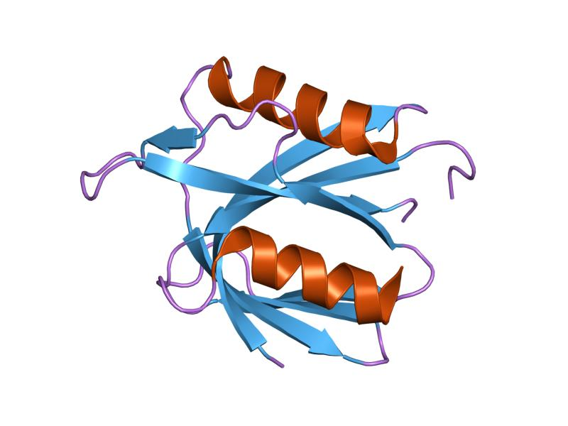 Cartoon representation of the molecular structure of protein registered with 1wvh code.